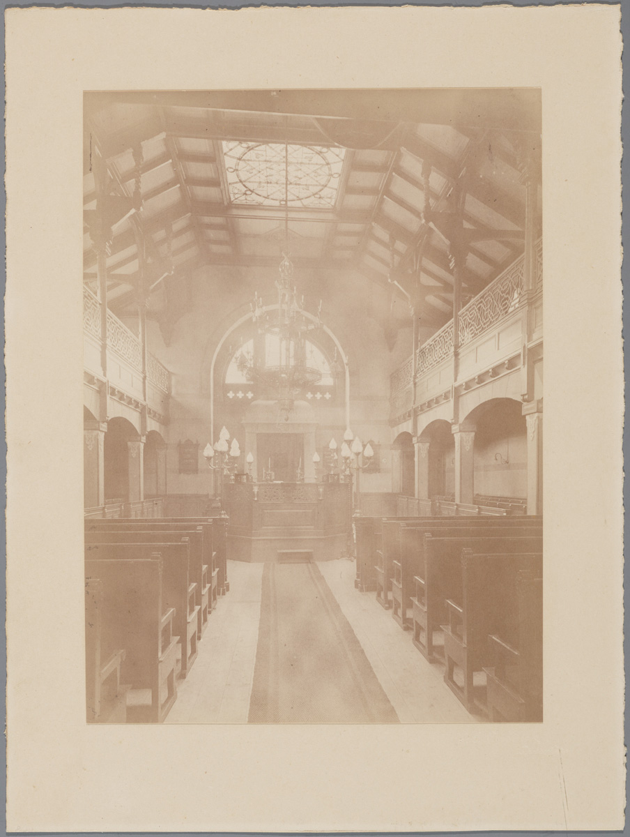 Original interior of the Great Synagogue of Deventer, The Netherlands